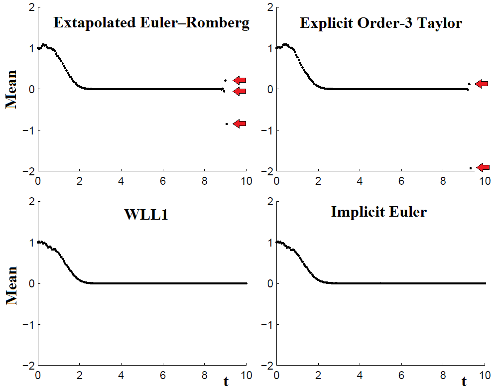 img WSDEs